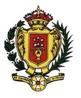 Emblem of the Congregation of Sisters of Charity of Saint Anne, from a devotional print